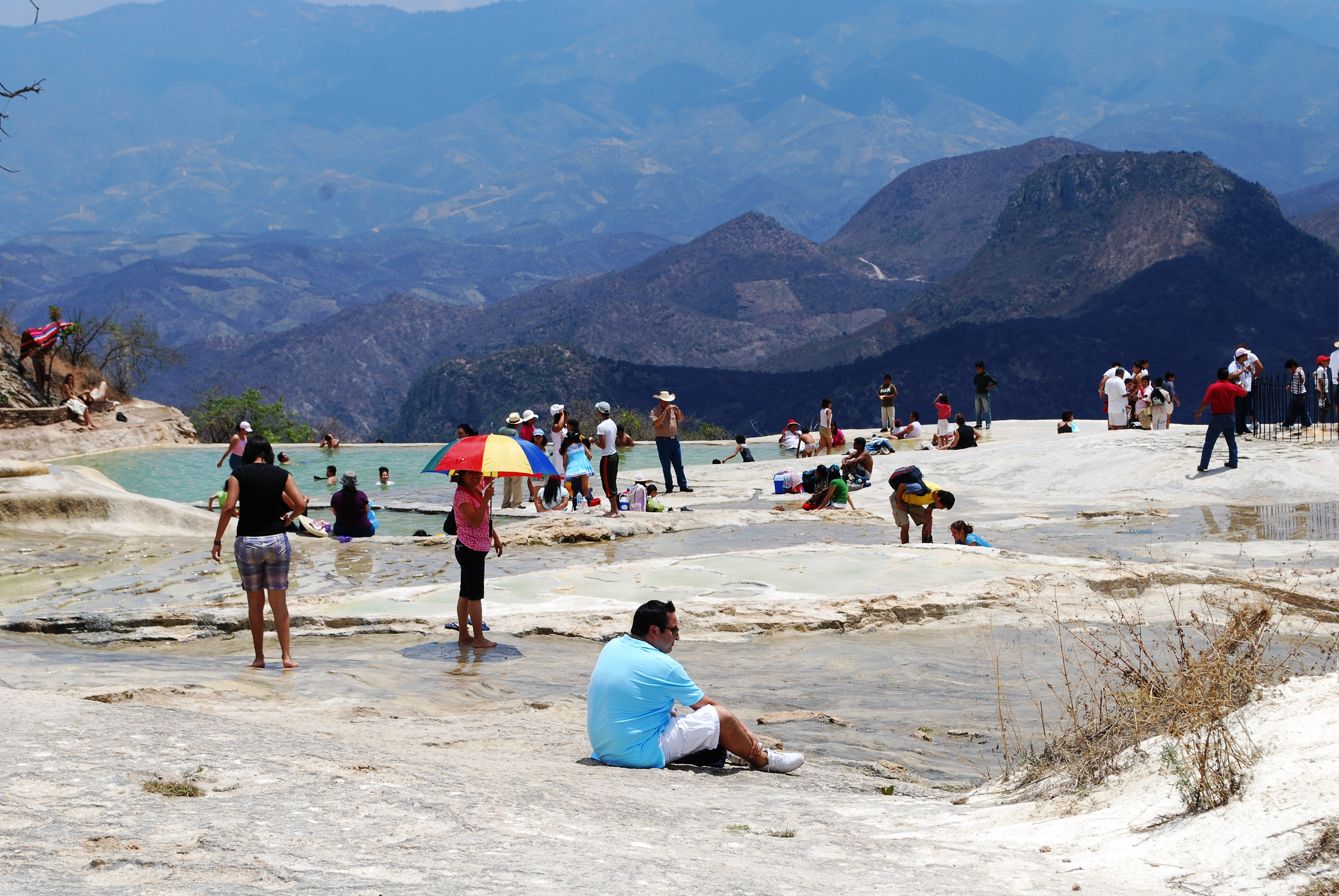 Lower natural and artificial pools at Hierve el Agua, Oaxaca, Mexico